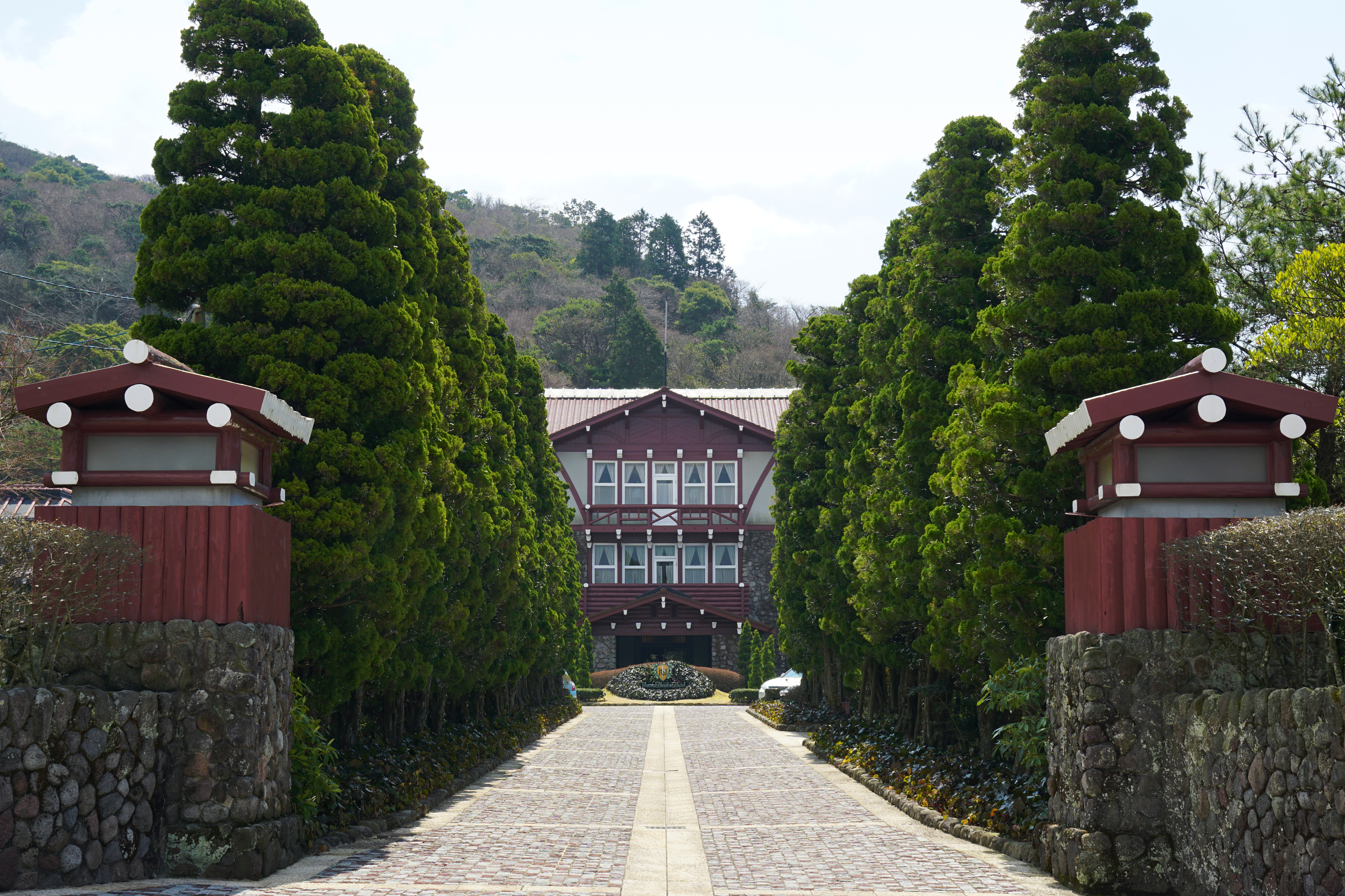 Unzen Kanko Hotel in Unzen City, Nagasaki prefecture, Japan.